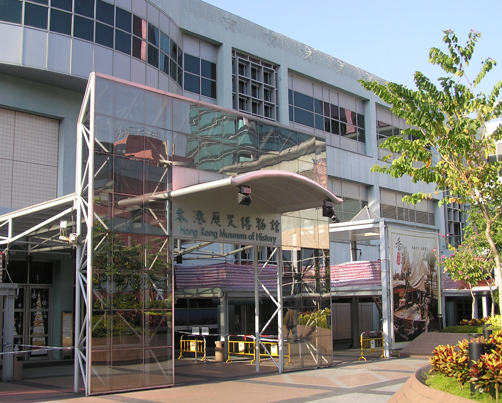 The main entrance of the Hong Kong Museum of History The photograph was taken by Alan Mak on December 27th, 2005.